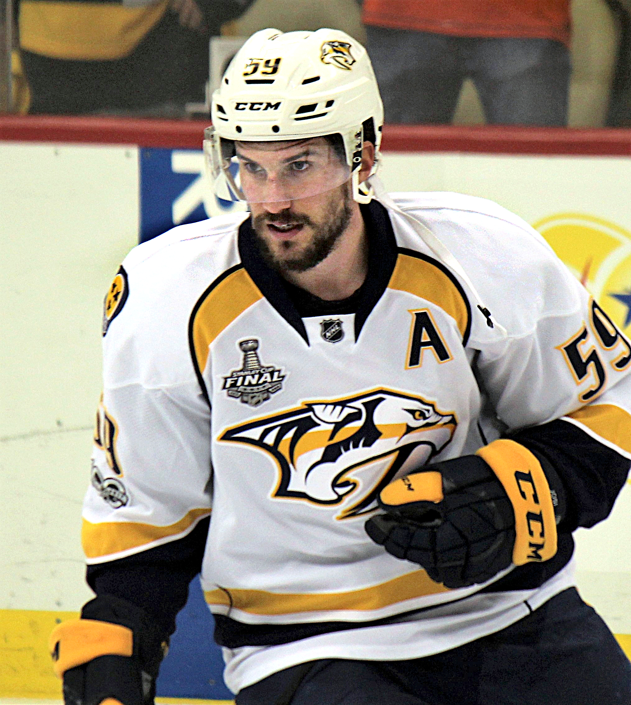 Nashville Predators defenseman Roman Josi during game 5 of the Stanley Cup Final against the Pittsburgh Penguins, June 8, 2017, at PPG Paints Arena in Pittsburgh, PA.